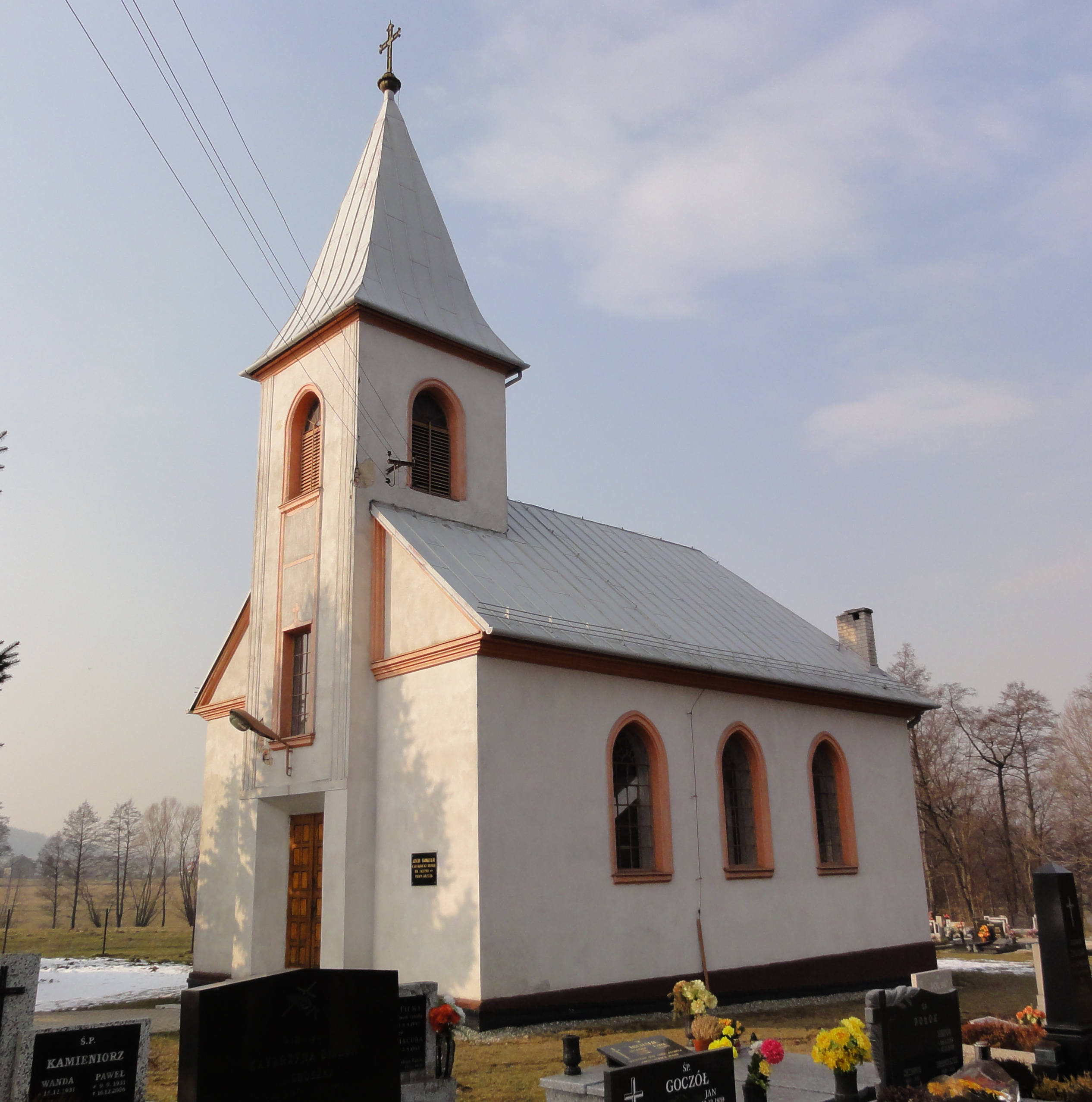 Lutheran church in Kozakowice (Dolne)